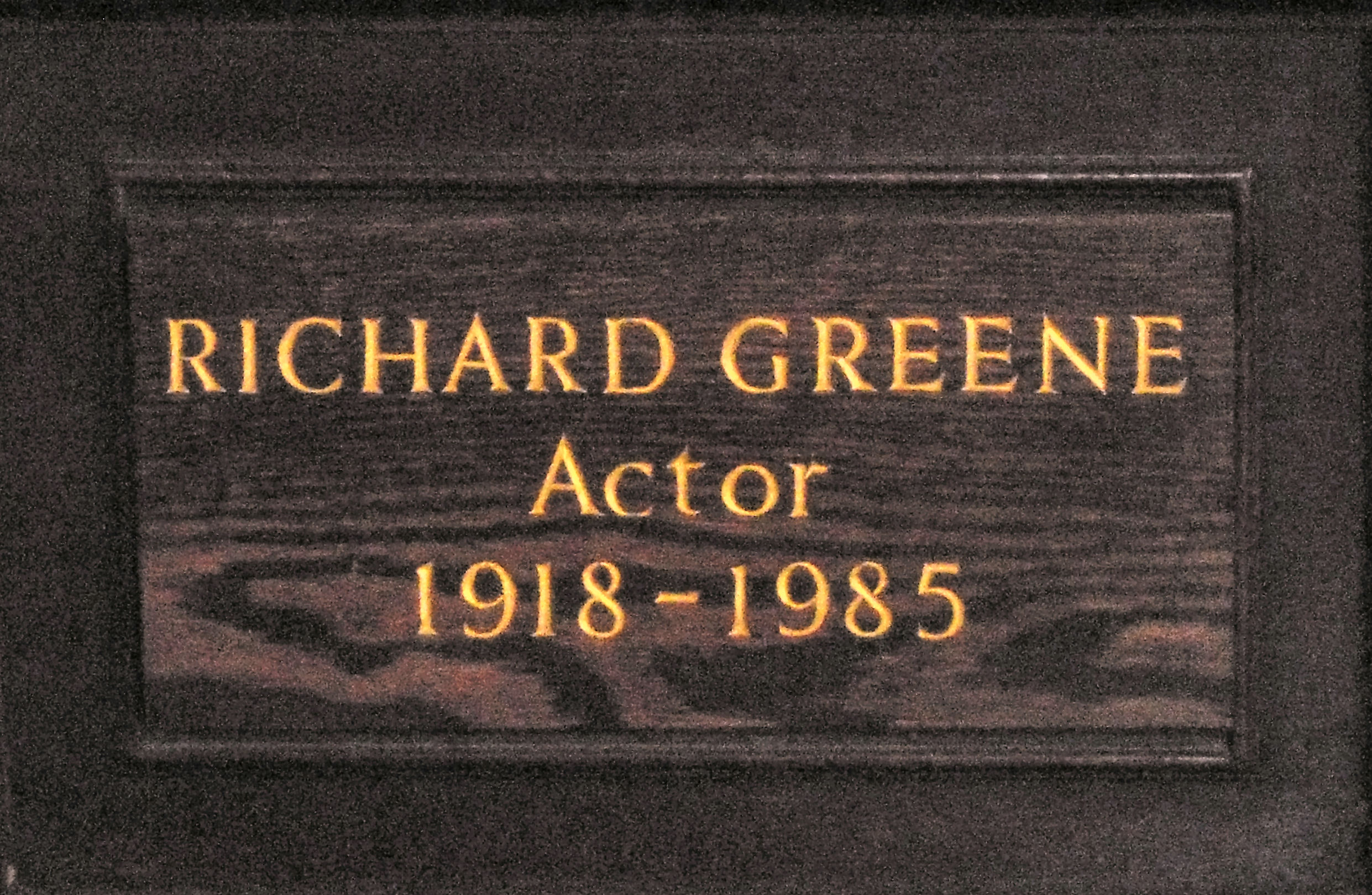 Memorial plaque to Richard Greene at St Paul's, Covent Garden